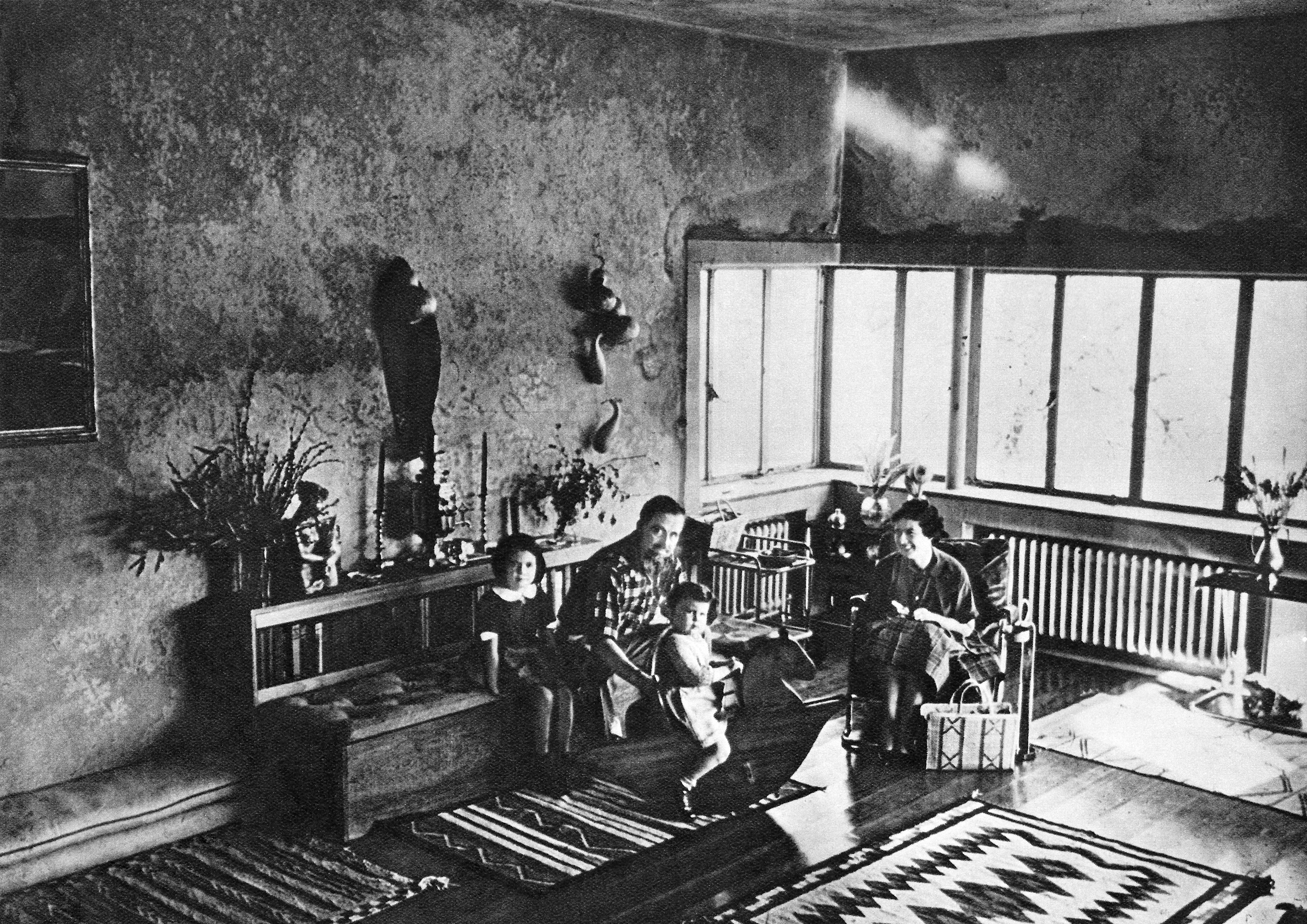 Photograph of Rex Stout, Pola Stout and their daughters at High Meadow, the house Stout built near Brewster, New York